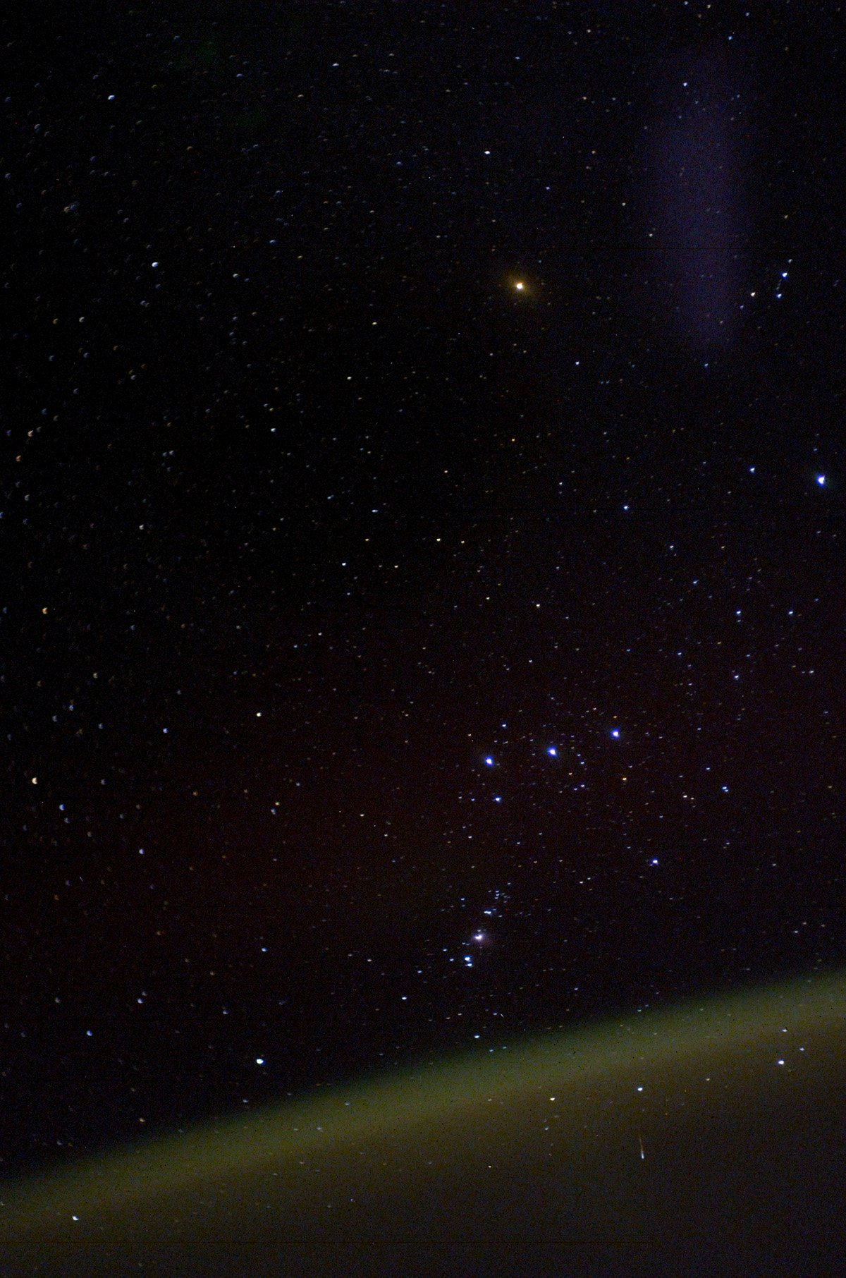 Airglow made visible in this dramatic image of the constellation Orion aboard the International Space Station (ISS) on January 6, 2003. Upper part of the image is shot 'out' of the atmosphere, while the lower parts are partly trough the very thin atmosphere present at the altitudes of the ISS's orbit. Picture of the day, April 3 2003. Credit: Don Pettit, ISS Expedition 6 Science Officer, NASA